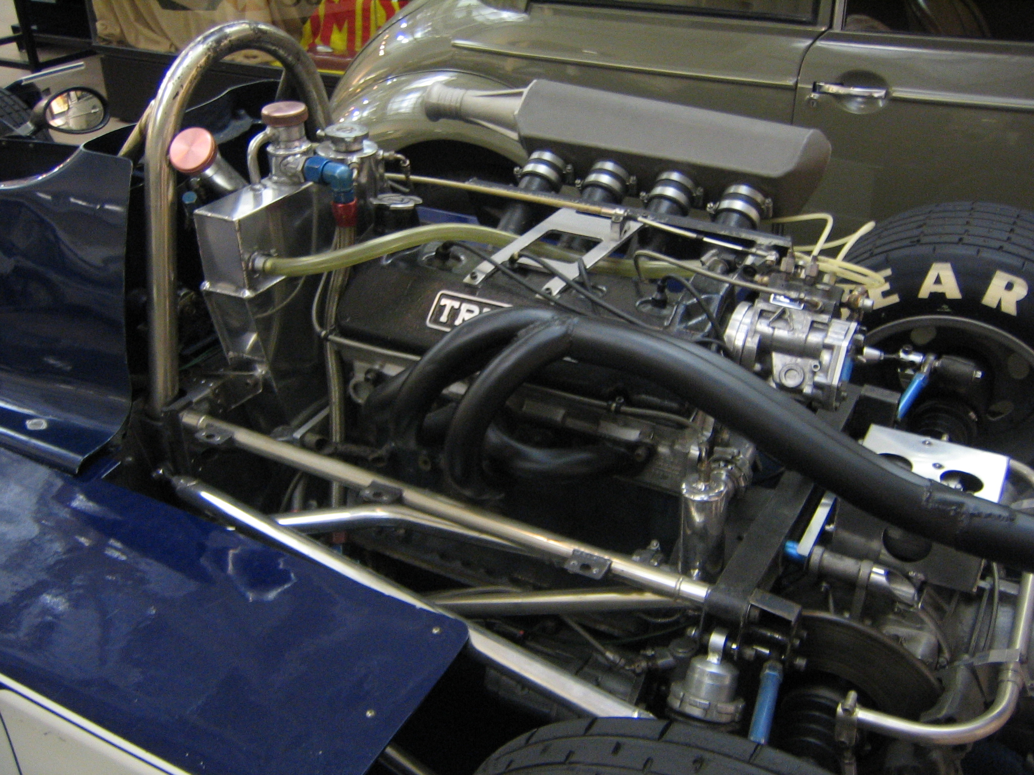 1978 March-Triumph F3 car engine, as raced by Nigel Mansell